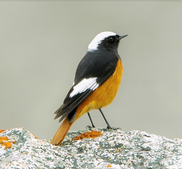 Guldenstadt's Redstart Phoenicurus erythrogastrus Altai, Kazakistan